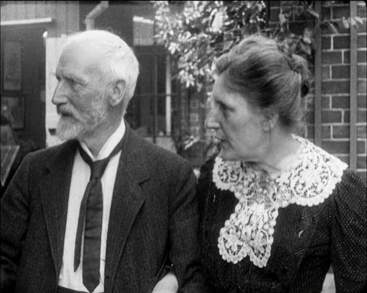 Screenshot from the Danish silent film Admiral Gad (Humlebæk) from June 1913 featuring the former counter admiral Urban Gad and his wife, the author Emma Gad, in their summer house. Urban Gad and Emma Gad.